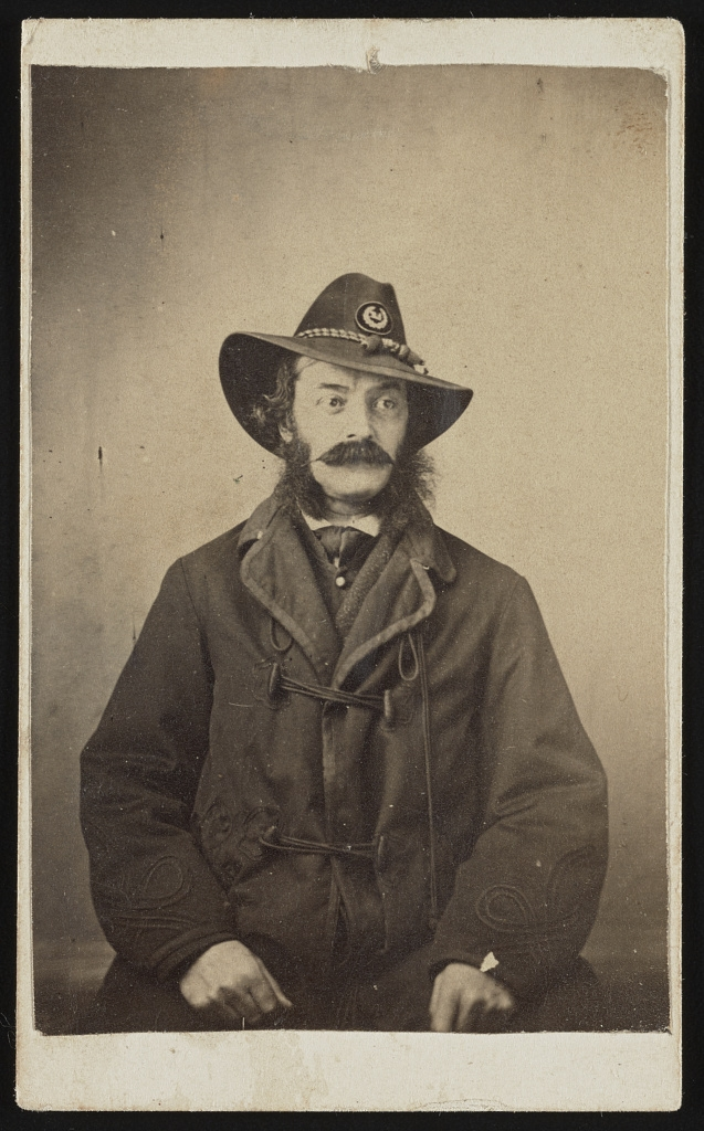 Captain George A. Armstrong (1830-1907) of Co. D, 7th Michigan Cavalry Regiment and Quartermaster's Dept U.S. Volunteers Infantry Regiment in uniform, Library of Congress